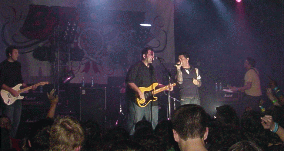 Chris Carrabba playing with Further Seems Forever at Bamboozle for their 2005 reunion show